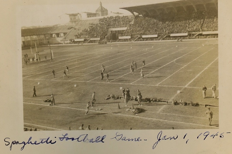 Military Football game on January 1, 1945 in Florence, Italy: 5th Army vs Air Force.